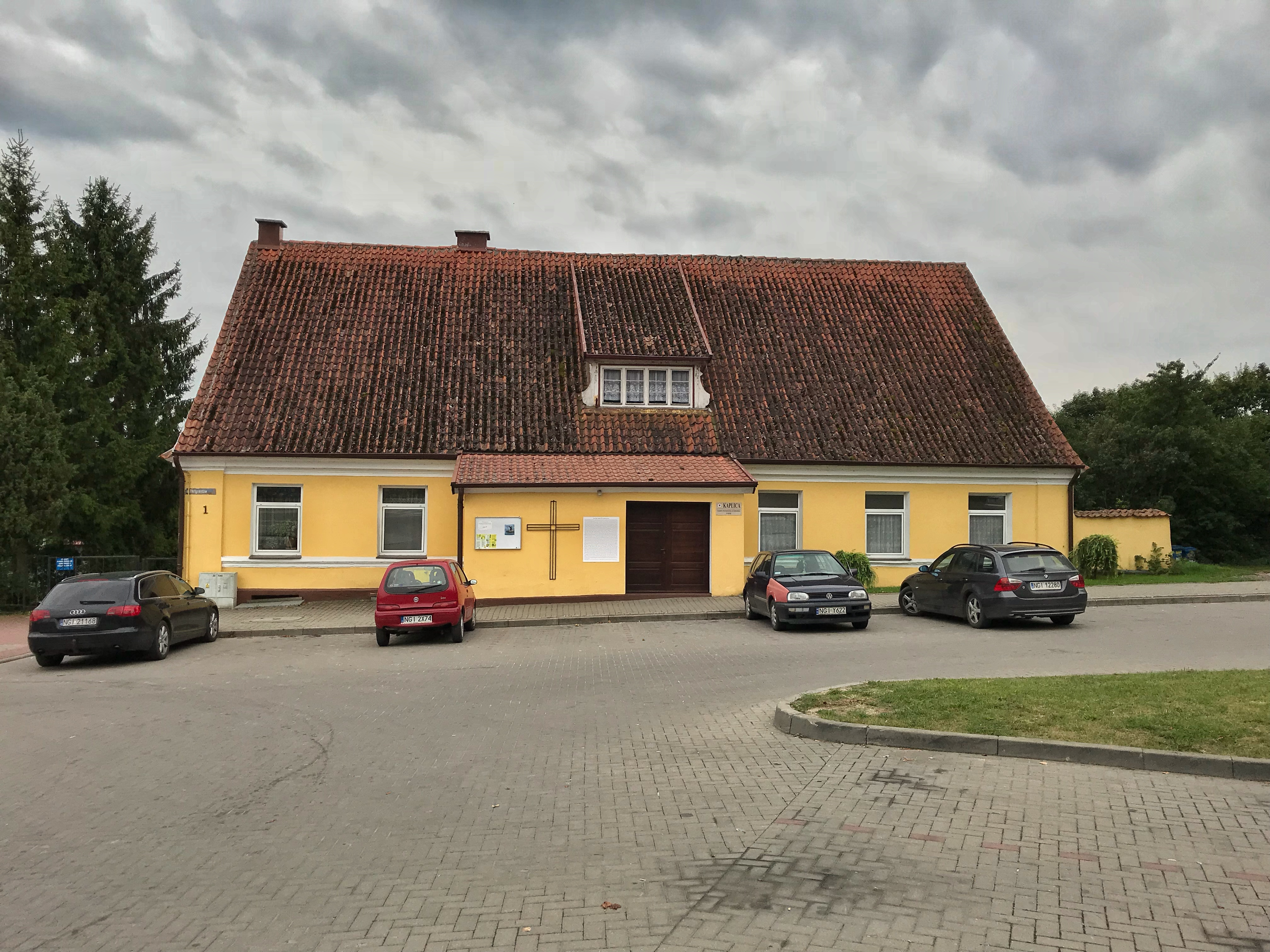 Lutheran chapel in Ryn